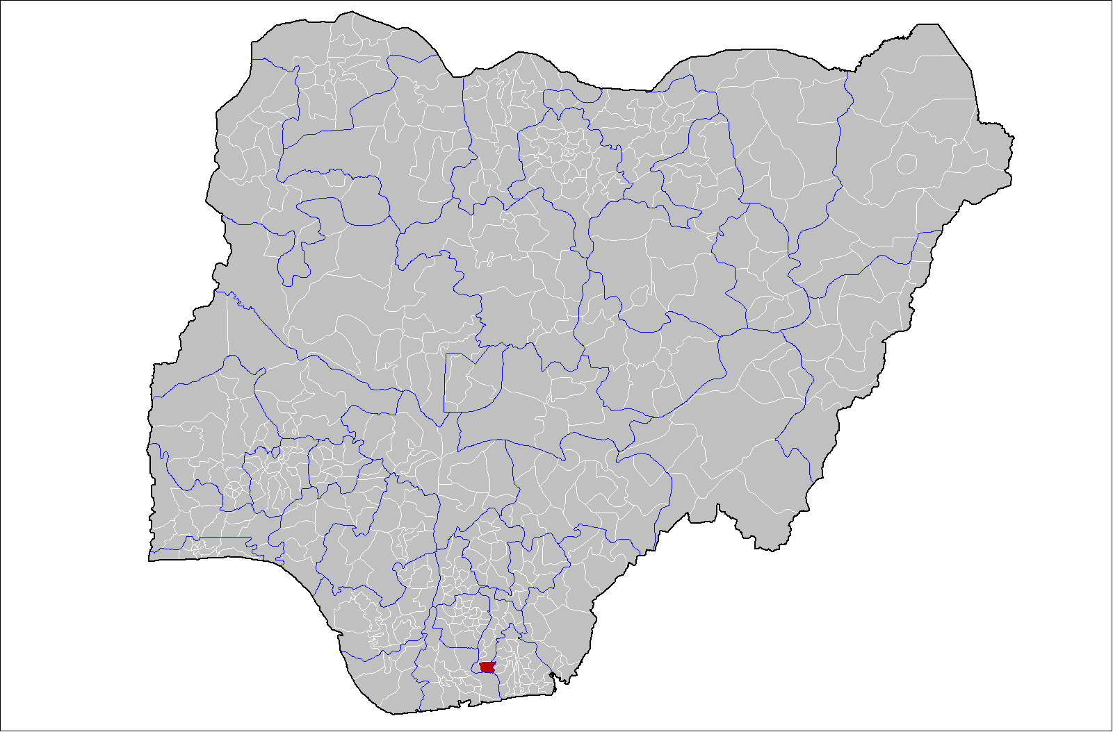 LGA locator map.